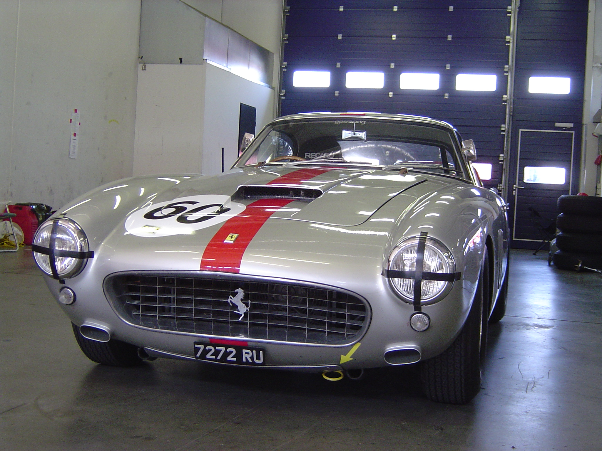 1960 Ferrari 250 GT SWB Berlinetta #1993GT, while painted silver/red stripe (early 2000s).[1]